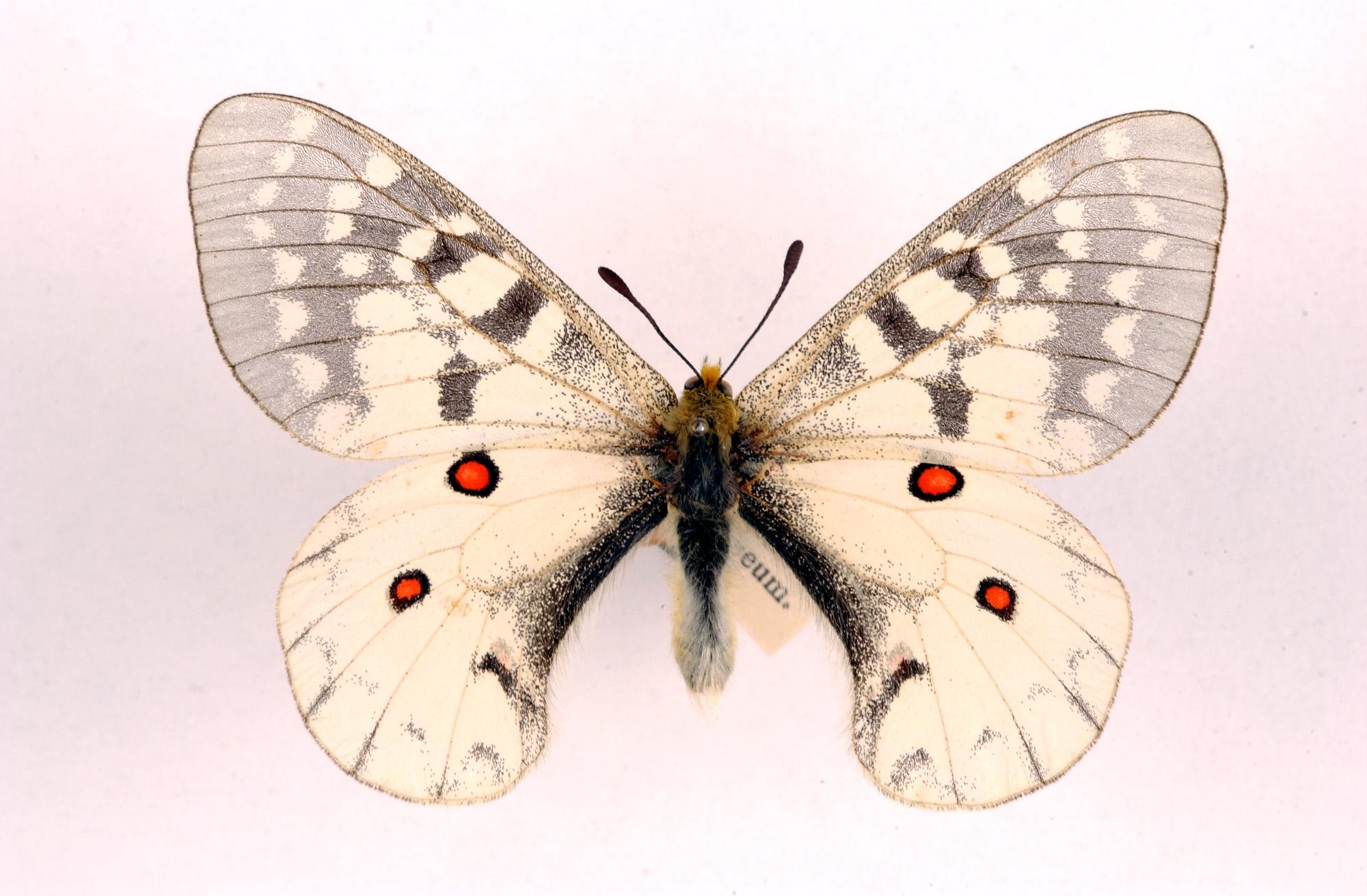 Parnassius clodius incredibilis Bryk and Eisner 1932 : 99 (described as subspecies of Parnassius clodius:-1 sex? St. Eli Pic/Ex Coll. H. J. Elwes, 1920/Ex Coll. Hill Museum 1931/Type P.T. Mr 7366. Currently placed as a sub-species of Parnassius clodius Menetries